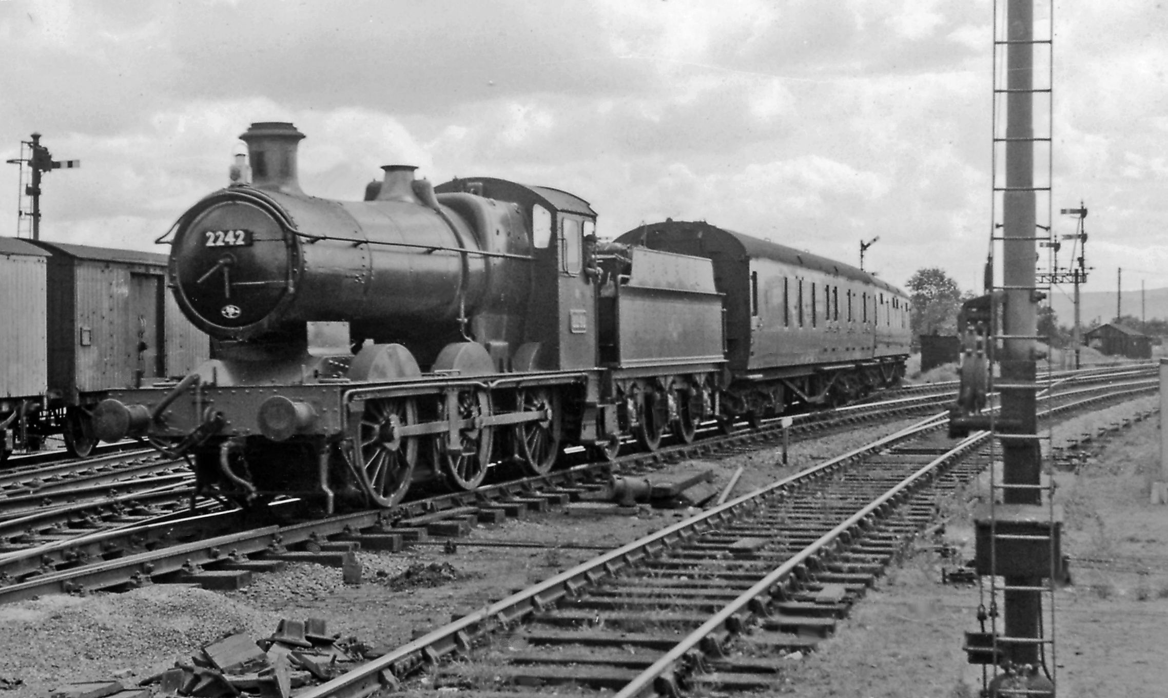 Local train from Cheltenham St James' entering Gloucester at Tramway Junction. View eastward, towards Cheltenham, also Birmingham and the North on both the ex-GW and ex-Midland routes (shared to Cheltenham Lansdown Junction); to the right is curving the ex-GW loop to Gloucester South Junction, Swindon, Bristol etc.